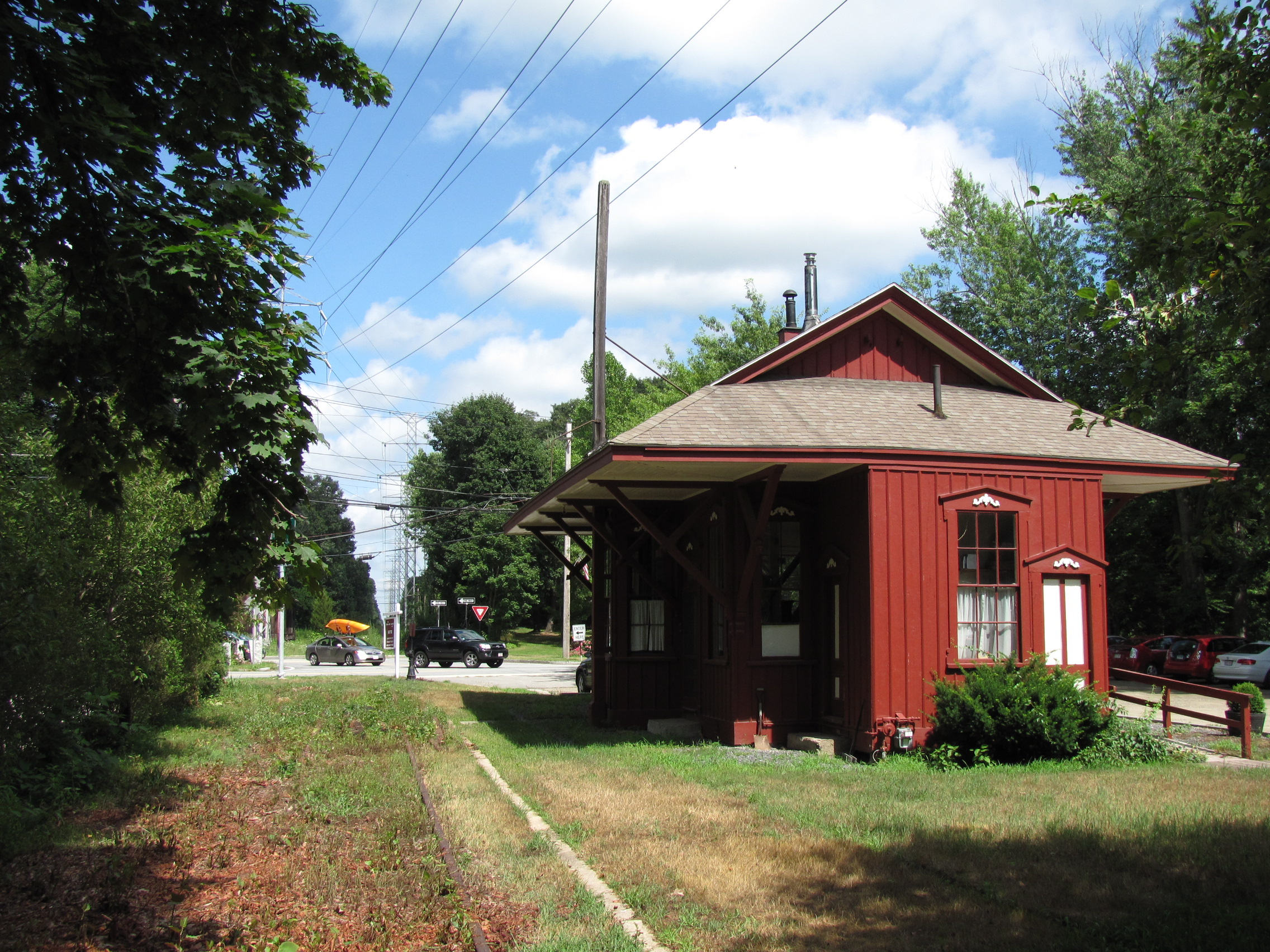 Wayland Depot, Wayland Massachusetts, July 2010